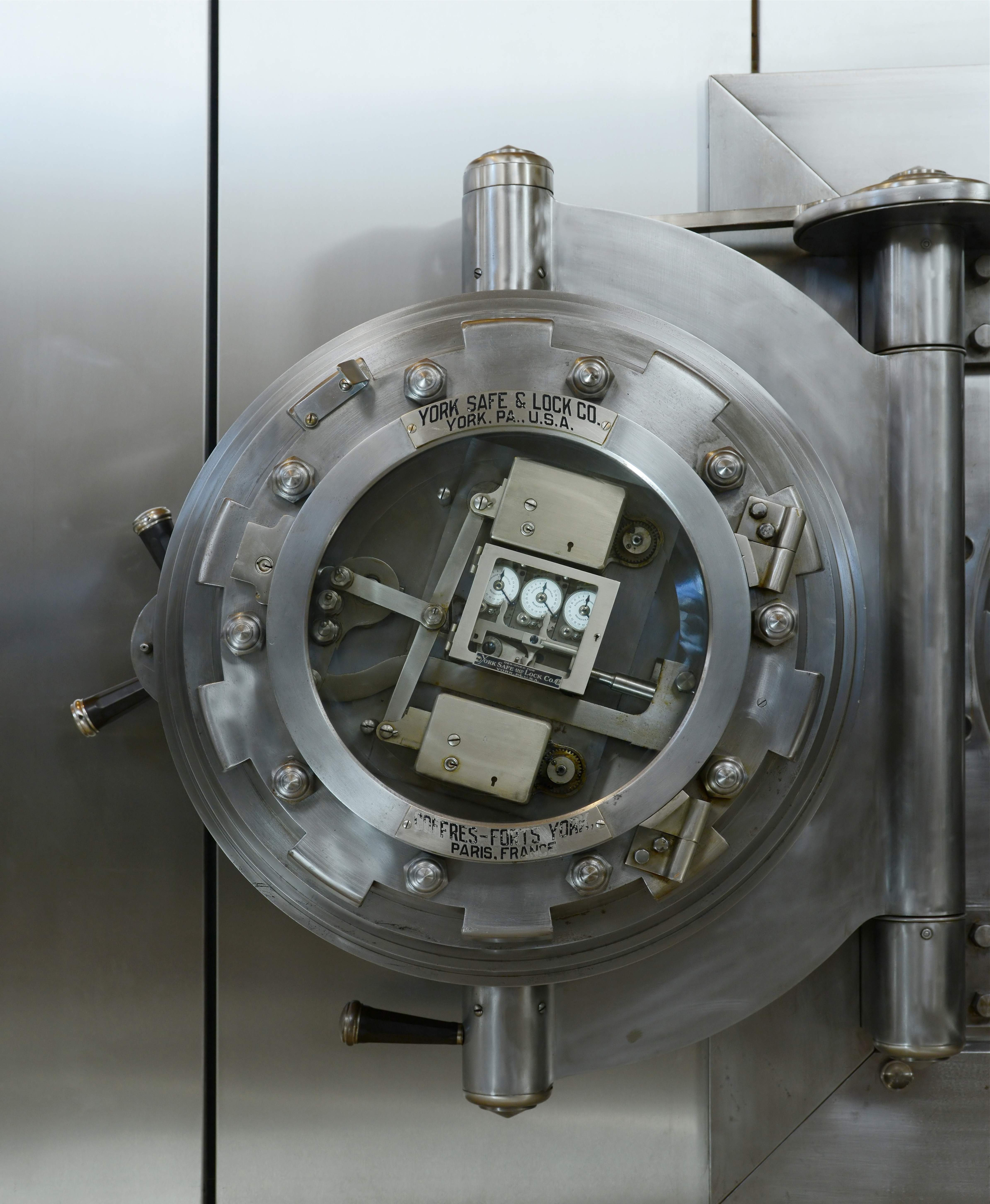 Door and mechanism of a bank safe made by the York Safe and Lock Company, USA. Museum of the Bank of Portugal, Lisnon